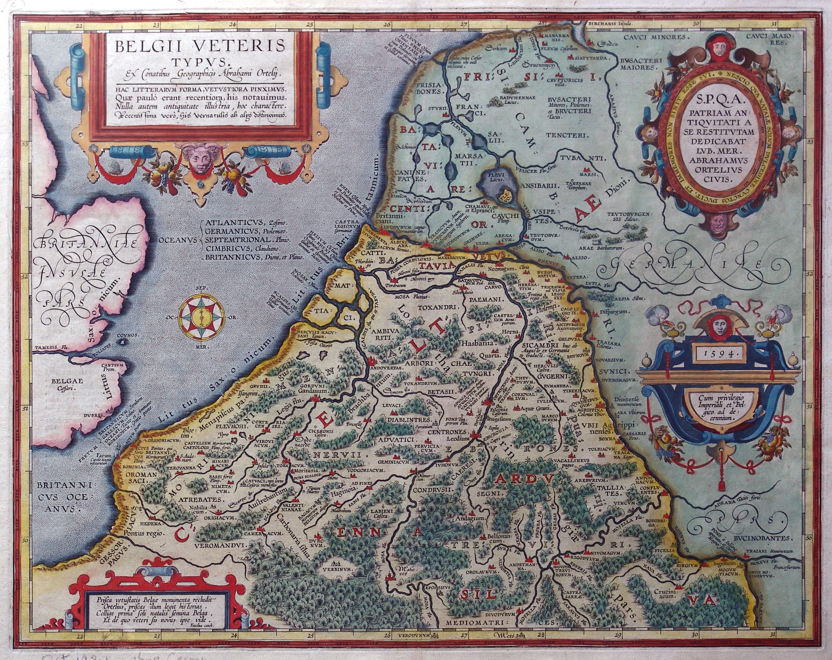 Map of Belgium in ancient times, Plate size: 385 x 489 mm; Paper size : 406 x 536 mm